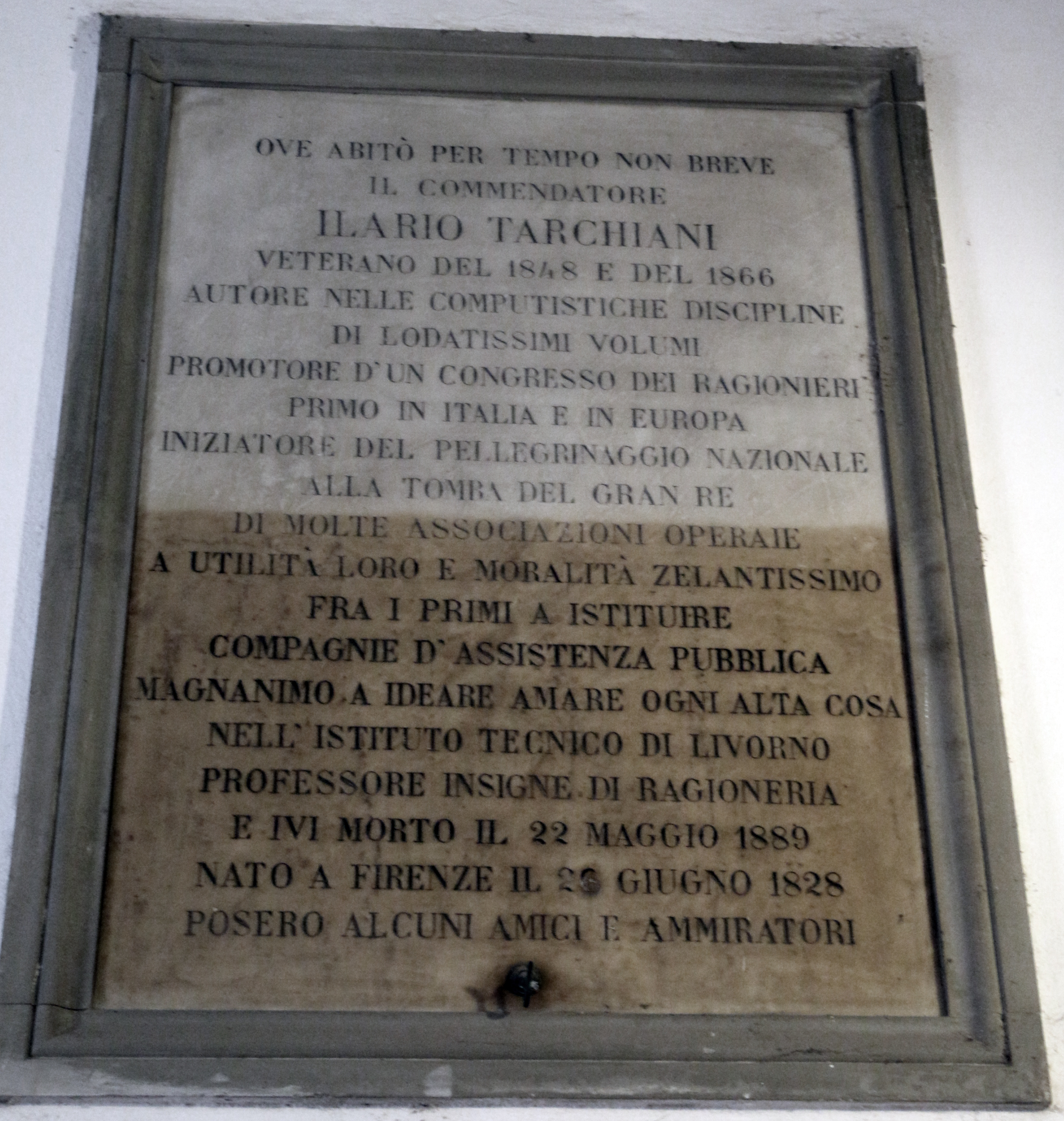 Palazzo Visconti di Modrone (Florence)